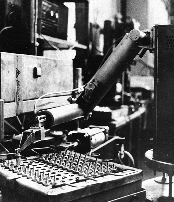 The first industrial robot UMS made in Belgrade, "Mihajlo Pupin" Institute